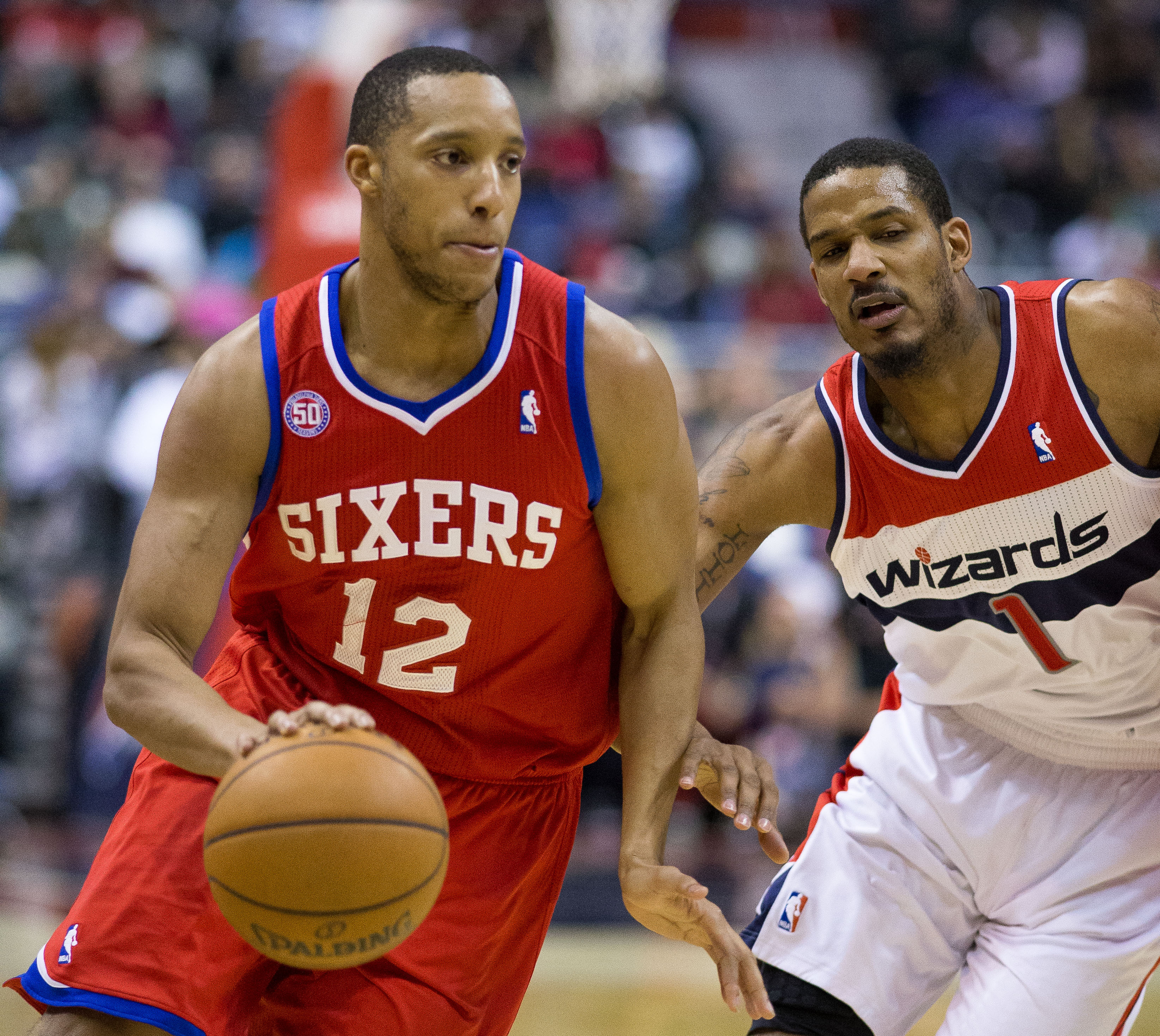 Philadelphia 76ers at Washington Wizards March 3, 2013